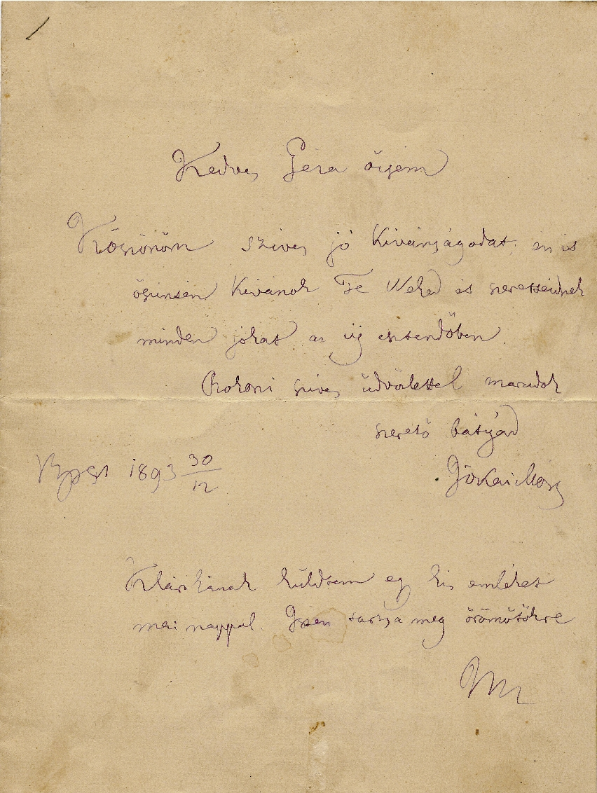 Handwritten letter from Mór Jókai 1893 in the collection of Podunajské múzeum v Komárne